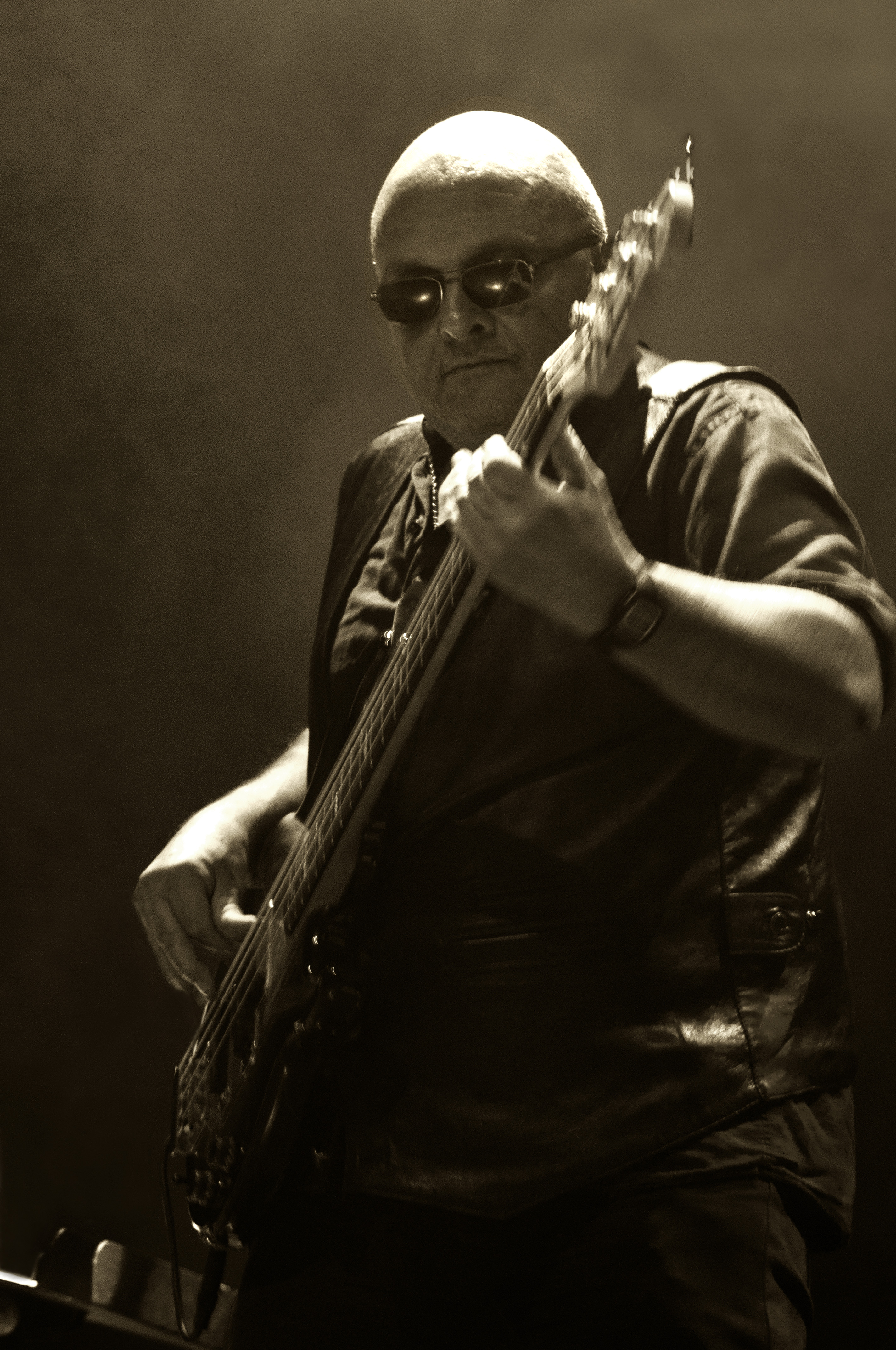 Portrait of the french bassist Jannick TOP with the group TROC, taken on 2011-11-28 during a concert in Nice (French Riviera)